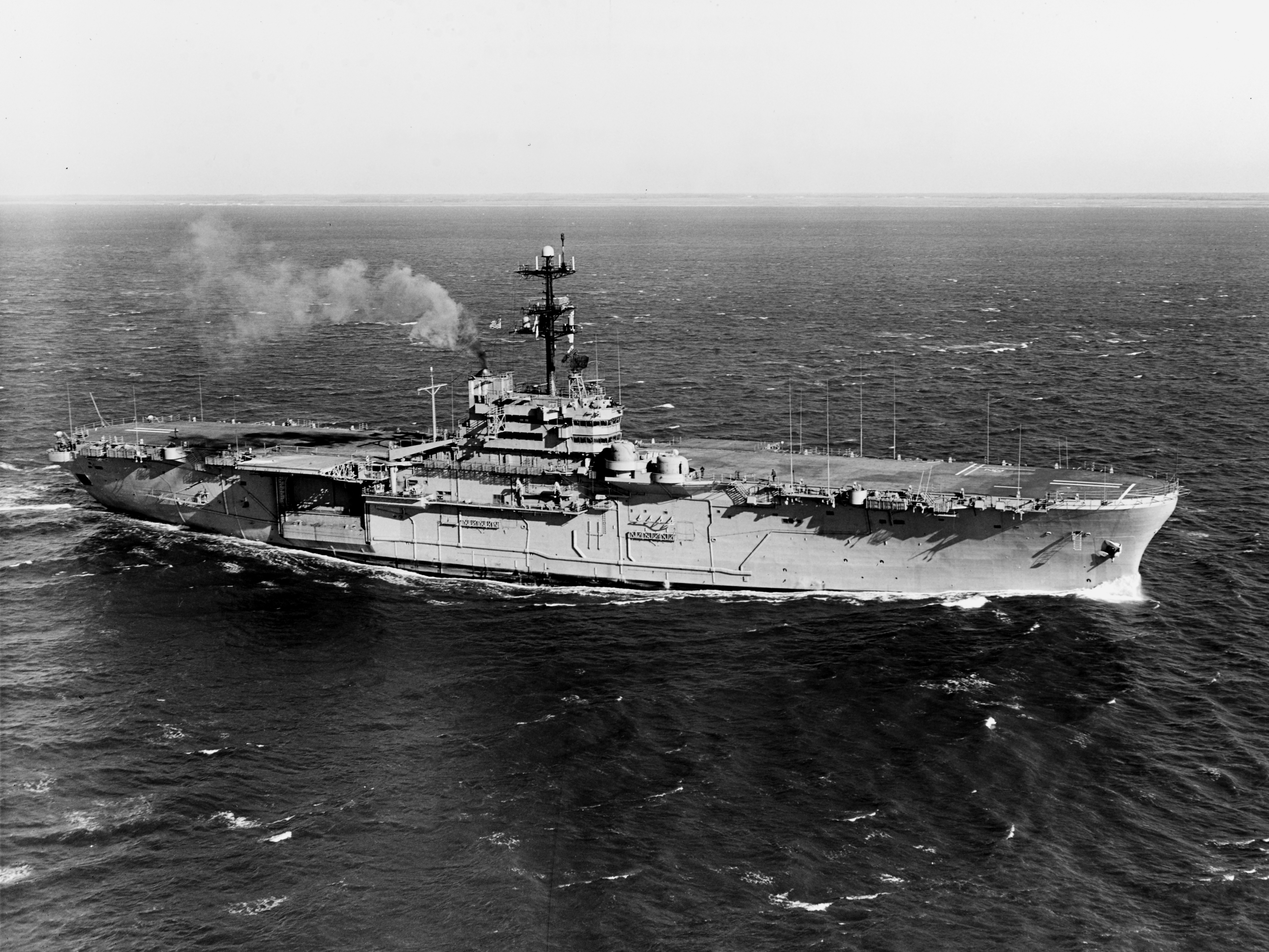 The U.S. Navy amphibious assault ship USS New Orleans (LPH-11) underway in Delaware Bay on 12 December 1968.